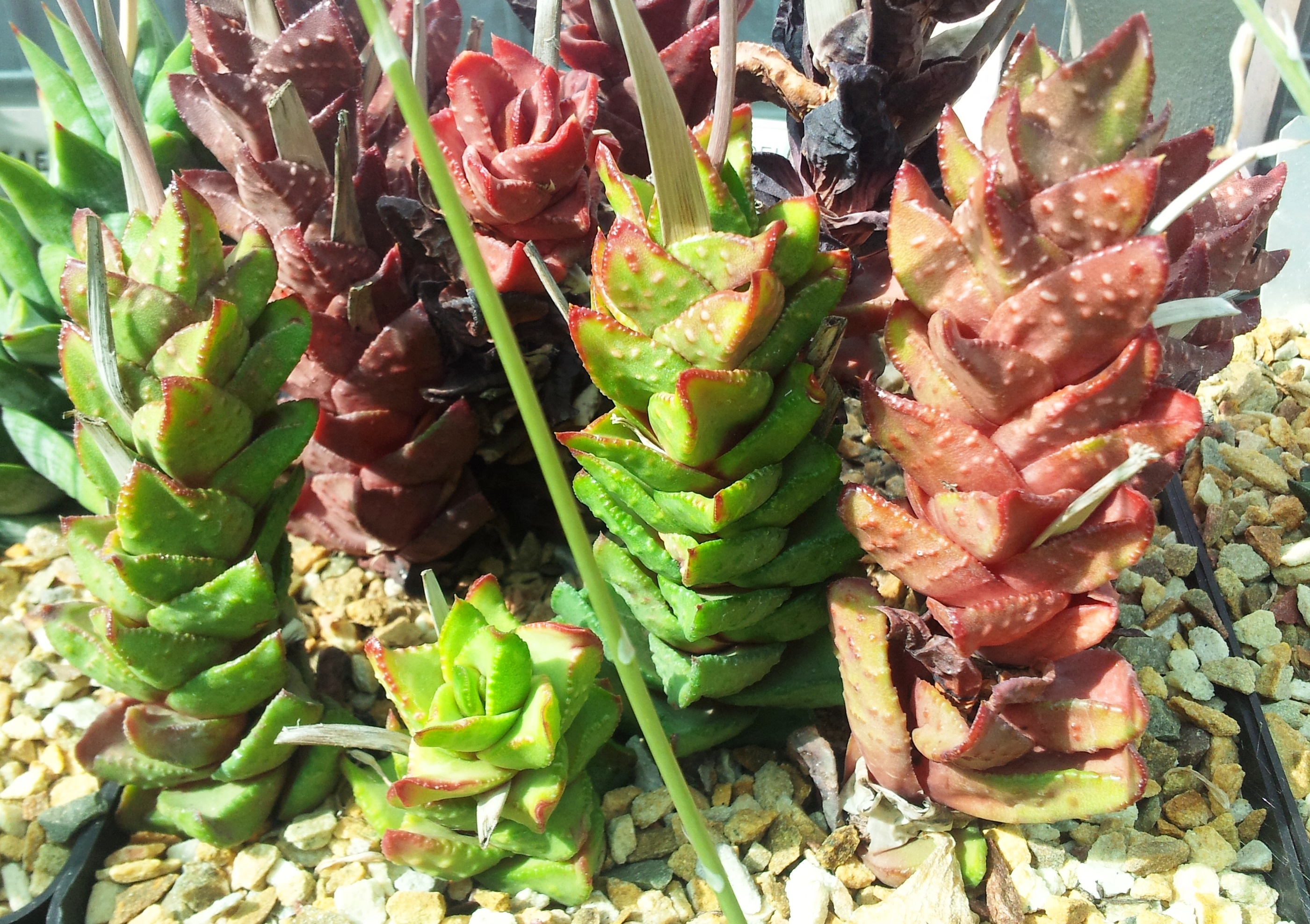 Astroloba bullulata